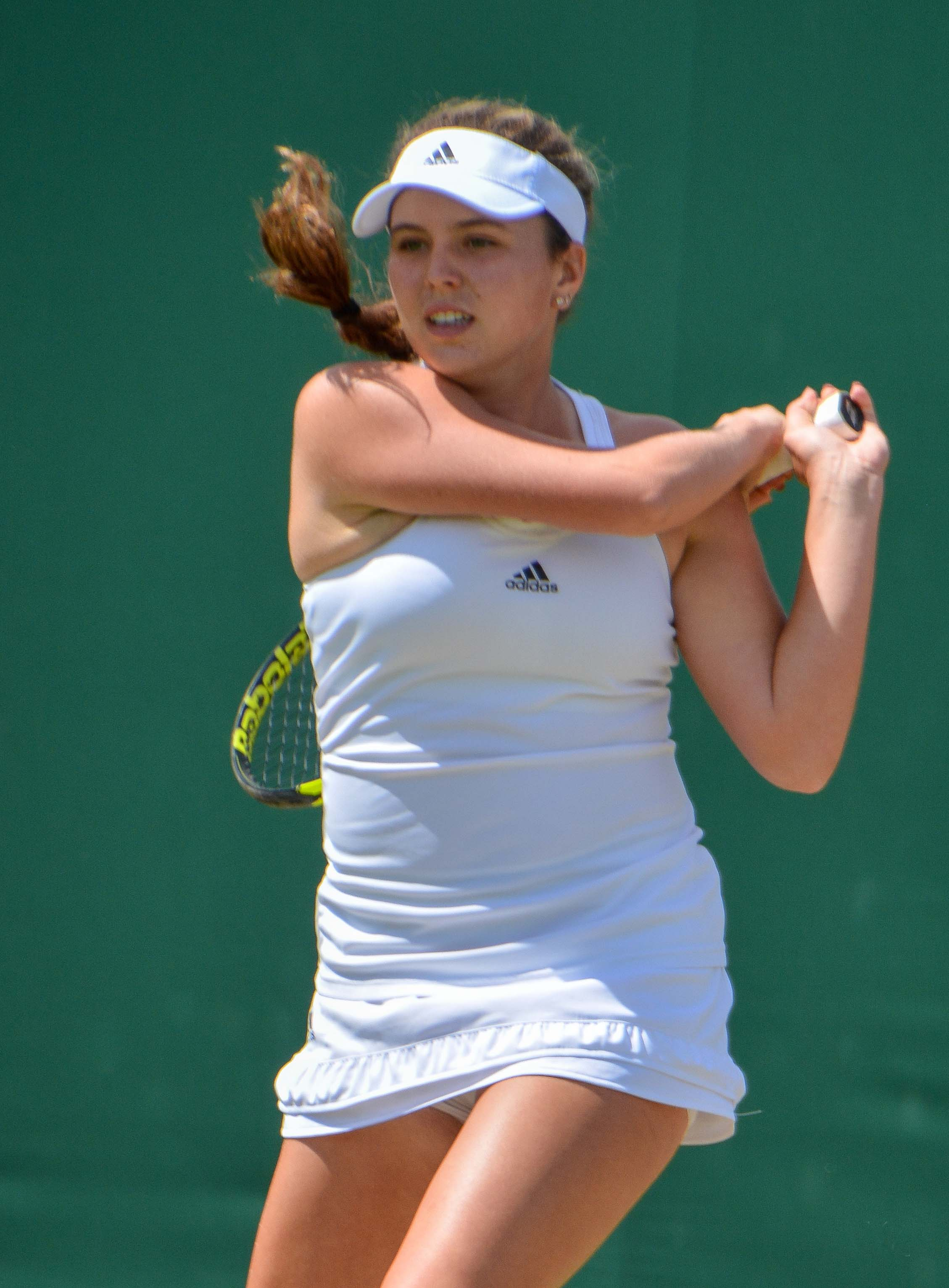 Kayla Day on the Middle Sunday of Wimbledon 2016.